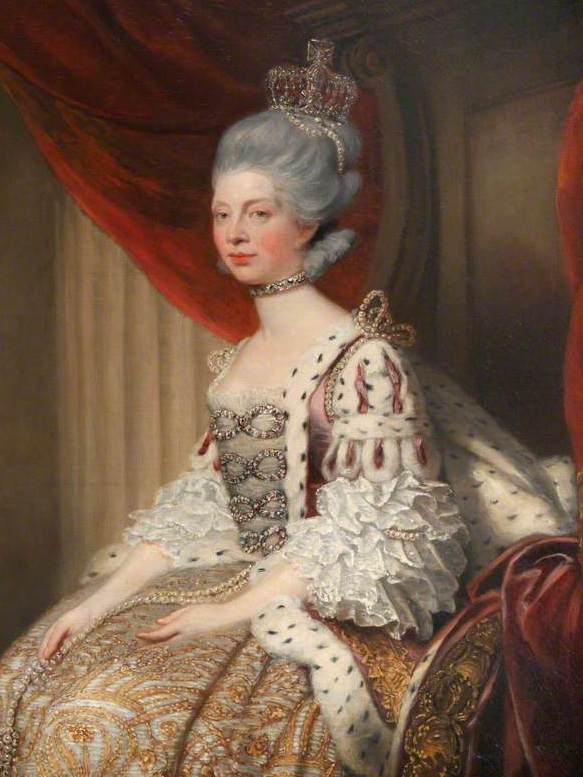 Oil painting on canvas, Queen Charlotte (1744-1818), studio of Sir Joshua Reynolds PRA (Plympton 1723 - London 1792). A three-quarter-length portrait, seated, turned to left, gazing at the spectator, wearing an ermine trimmed dress, ruffled lsace sleeves, and jewelled choker necklace. Her powdered hair is dressed with pearls and a small crown. Red drape behind drawn back to the right, revealing a fluted stone pillar.